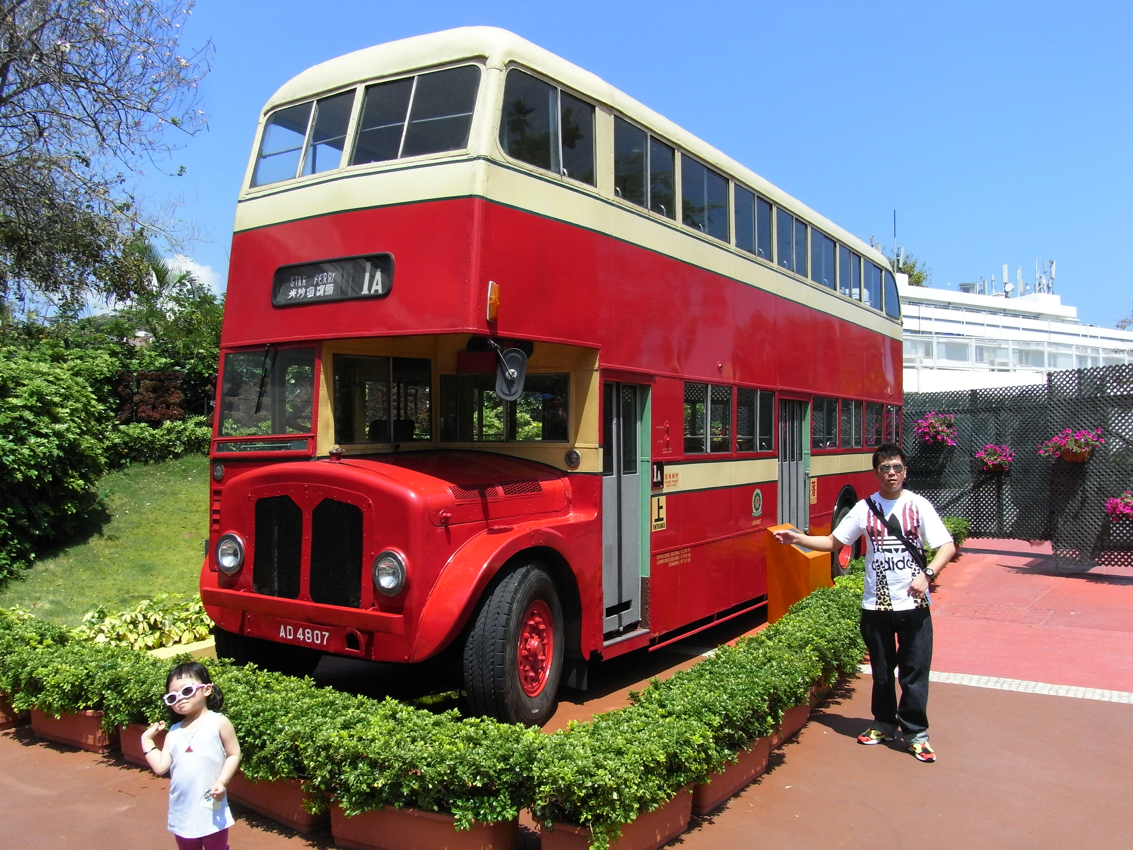 A Kowloon Motor Bus' AEC Regent V shown outside Old Hong Kong of Ocean Park, Hong Kong